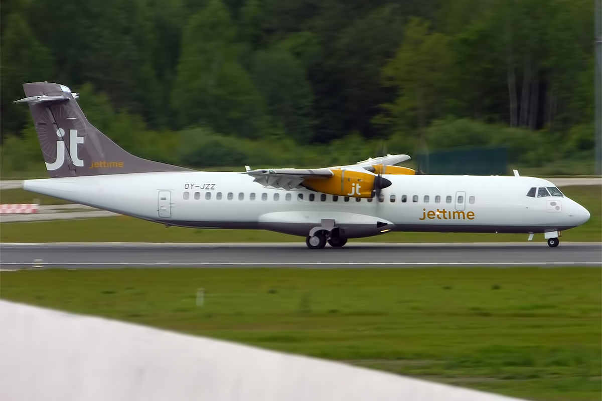 Jettime, OY-JZZ, ATR 72-500